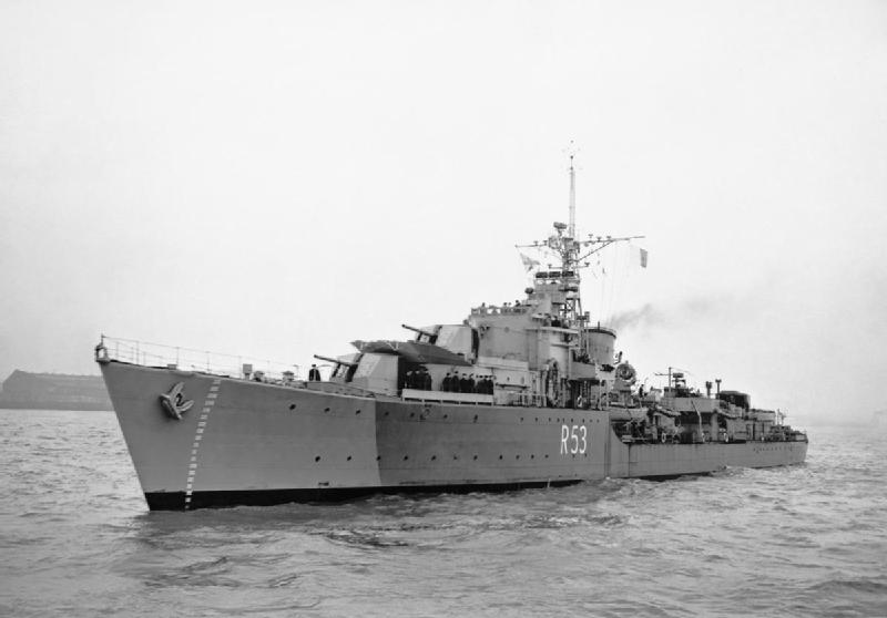 British destroyer HMS Undaunted underway in the River Mersey.